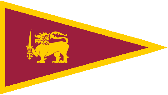 Yacht club flag